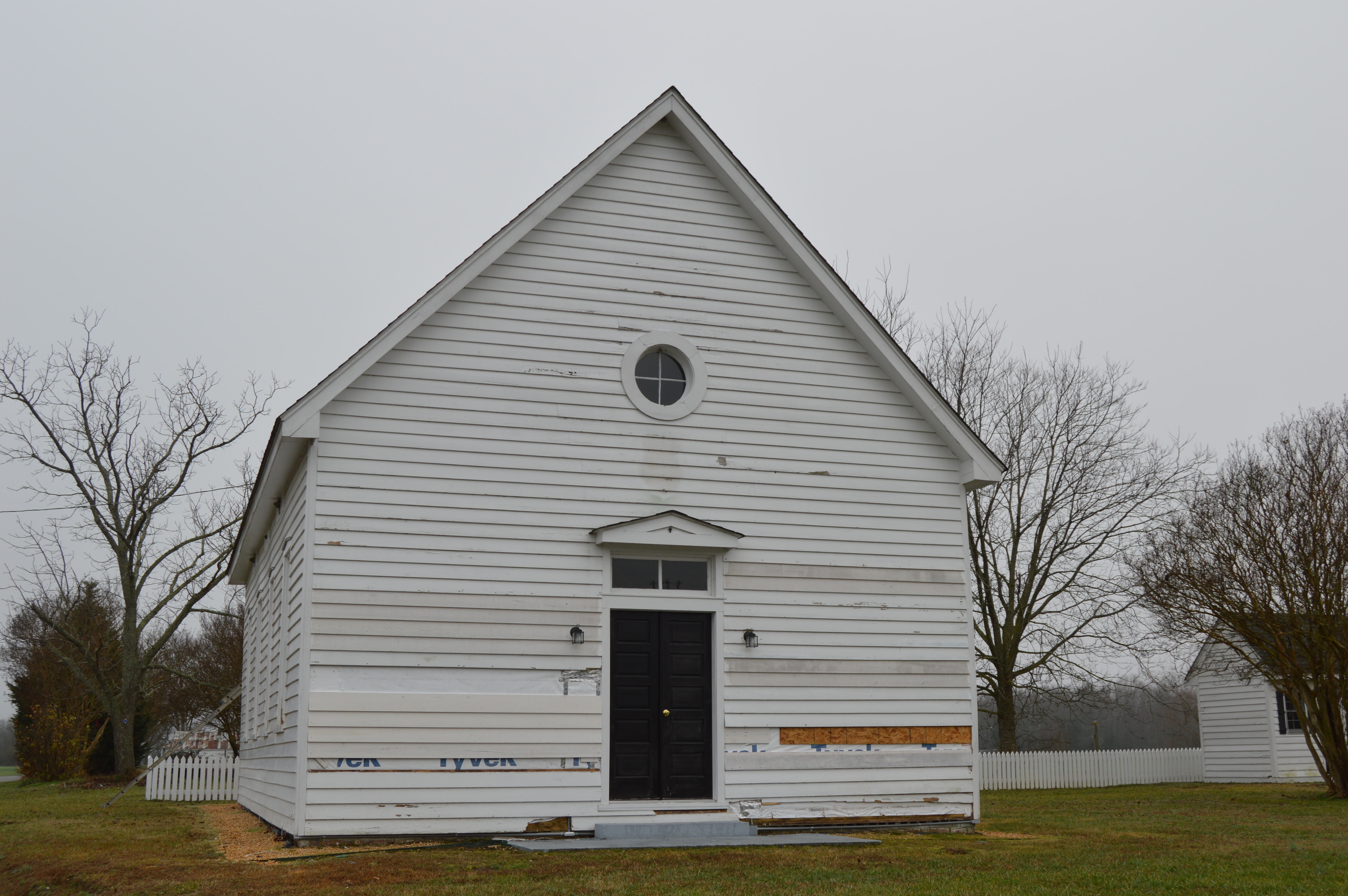 Front and southeastern side of the former Lanesville Christadelphian Church, located at the central intersection at Lanesville in King William County, Virginia, United States. It was built in 1876.